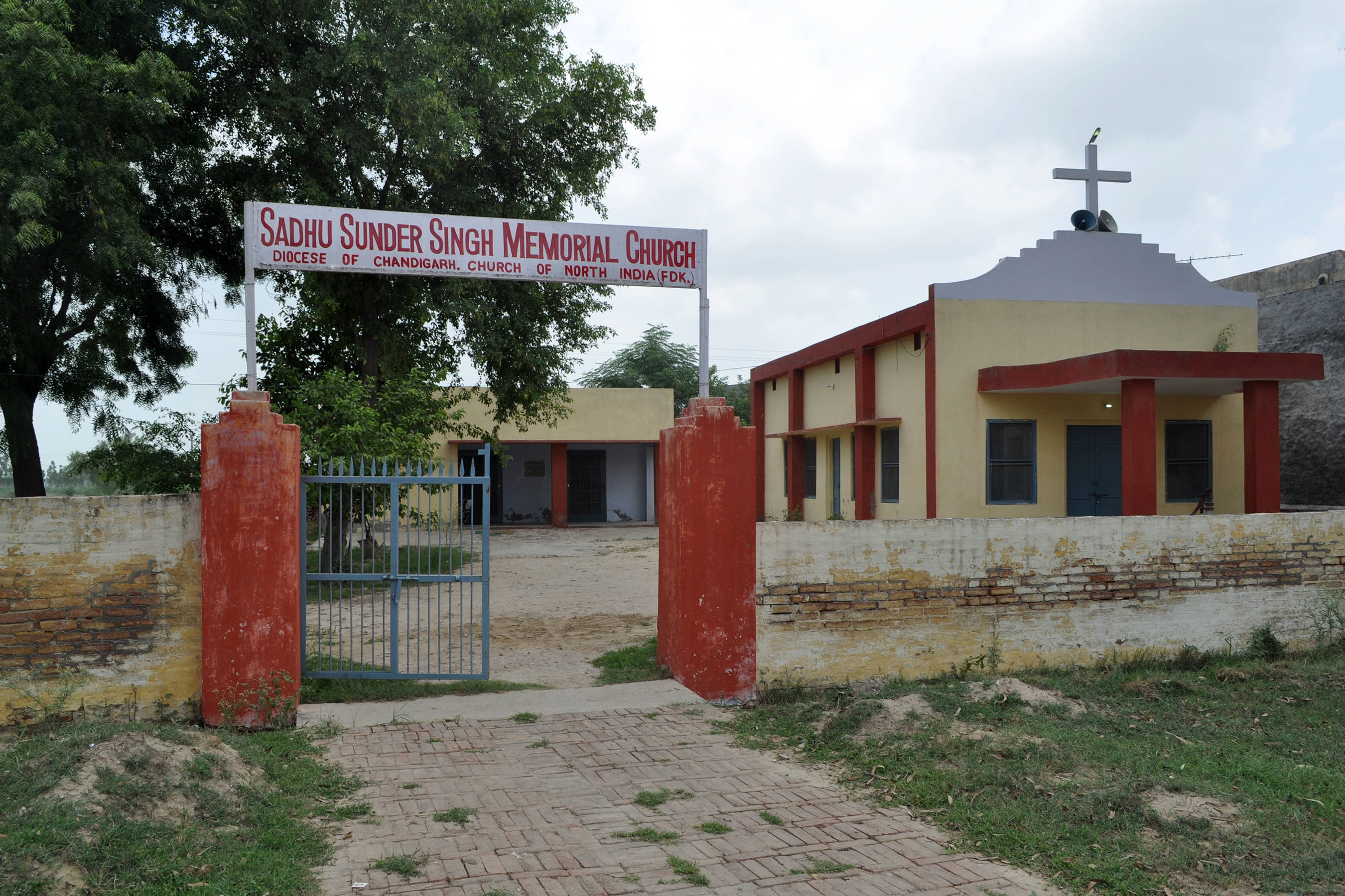 Diocese of Chandigarh, Church of North India in Faridkot, Punjab